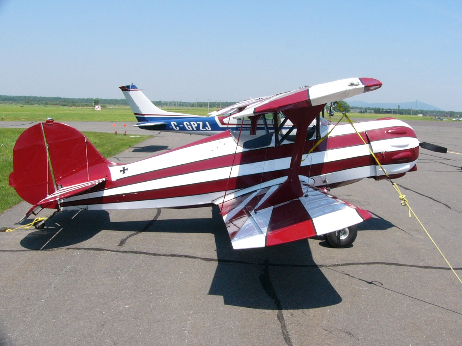 A Canadian Murphy Renegade Spirit biplane without registration markings applied, seen at the Cornwall, Ontario fly-in.